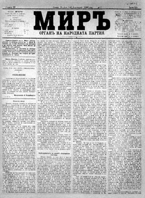 Newspaper "Peace" in 1896